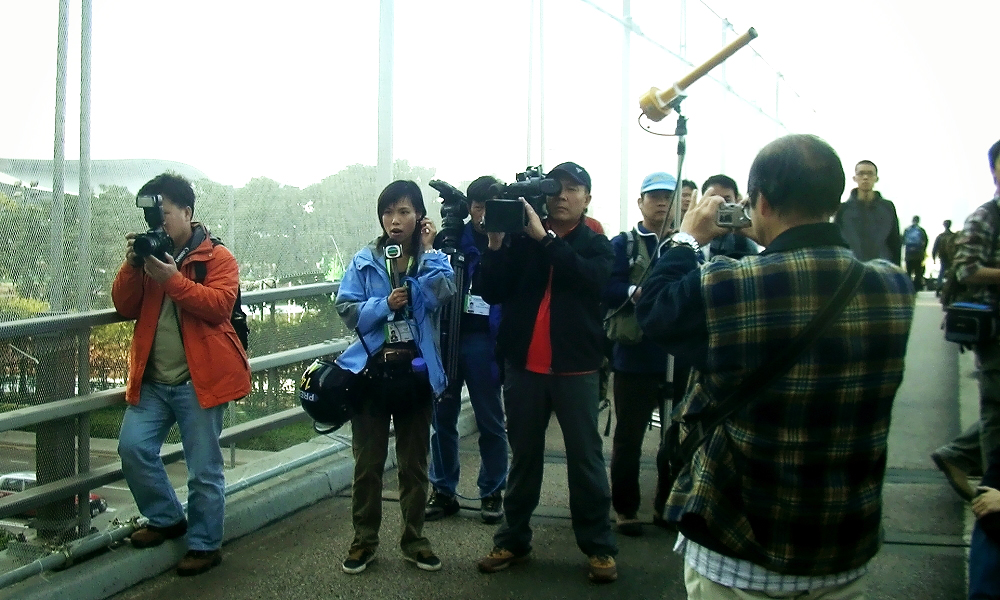 TVB's live reporting on the anti-WTO protest in HK